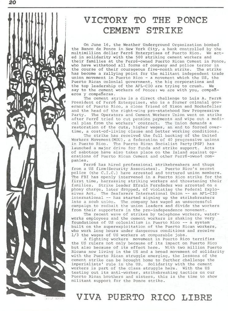 Article of Osawatomie (issue n°2), the clandestine newspaper of the Weather Underground, claiming the bombing at the Ponce Bank in solidarity with the strike of cement workers and of the Puerto Rican independant movement.